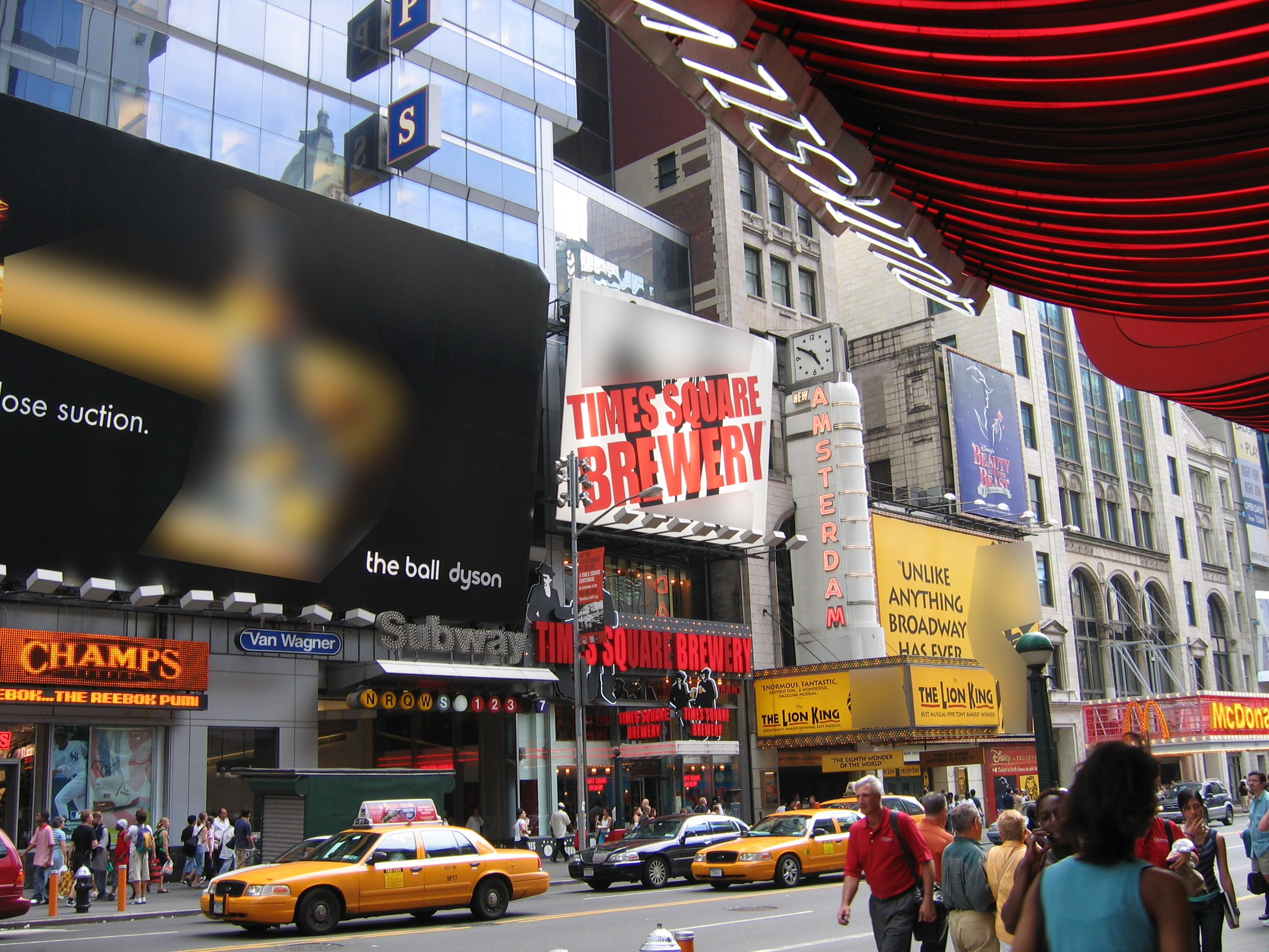 Times Square in New York City